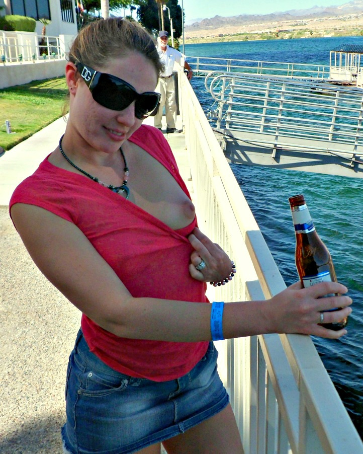 Woman flashing her left breast nipple for the camera.